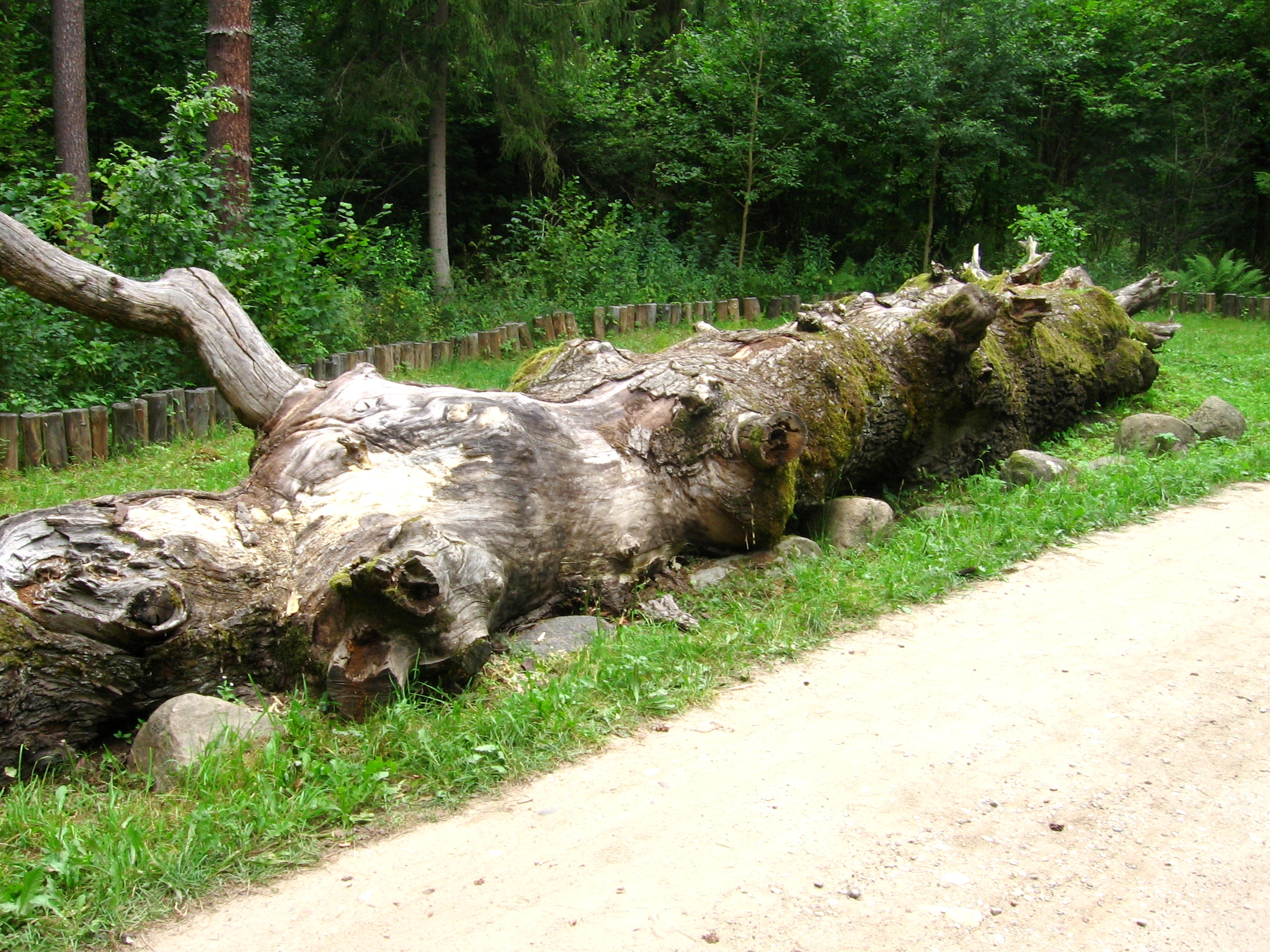 Zverincius Oak, Birstonas municipality, Lithuania